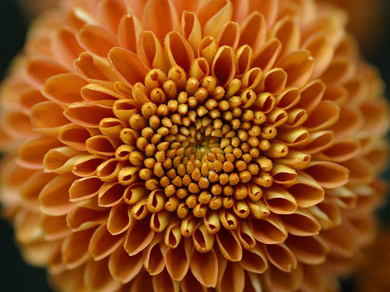 Originally uploaded with description "Chrysanthemum x grandiflorum", but later changed by another user to "Dahlia". Identification unsure.